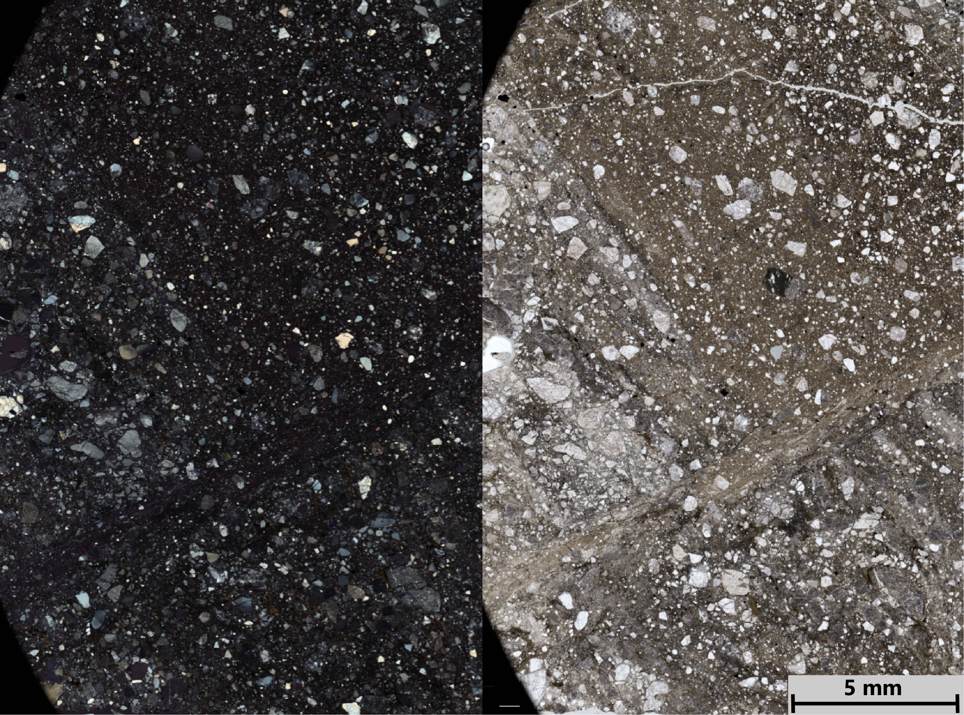 Thin section image of a sheared cataclasite in both plane polars (right) and crossed polars (left). Upper left to lower right oriented (\) cataclasite banding is cut by a finer grained cataclasite shear oriented lower left to upper right (/). Banding in cataclasite is defined by grain size and ratio of clast to matrix. Core sample taken from the San Andreas Fault at Elizabeth Lake, CA.